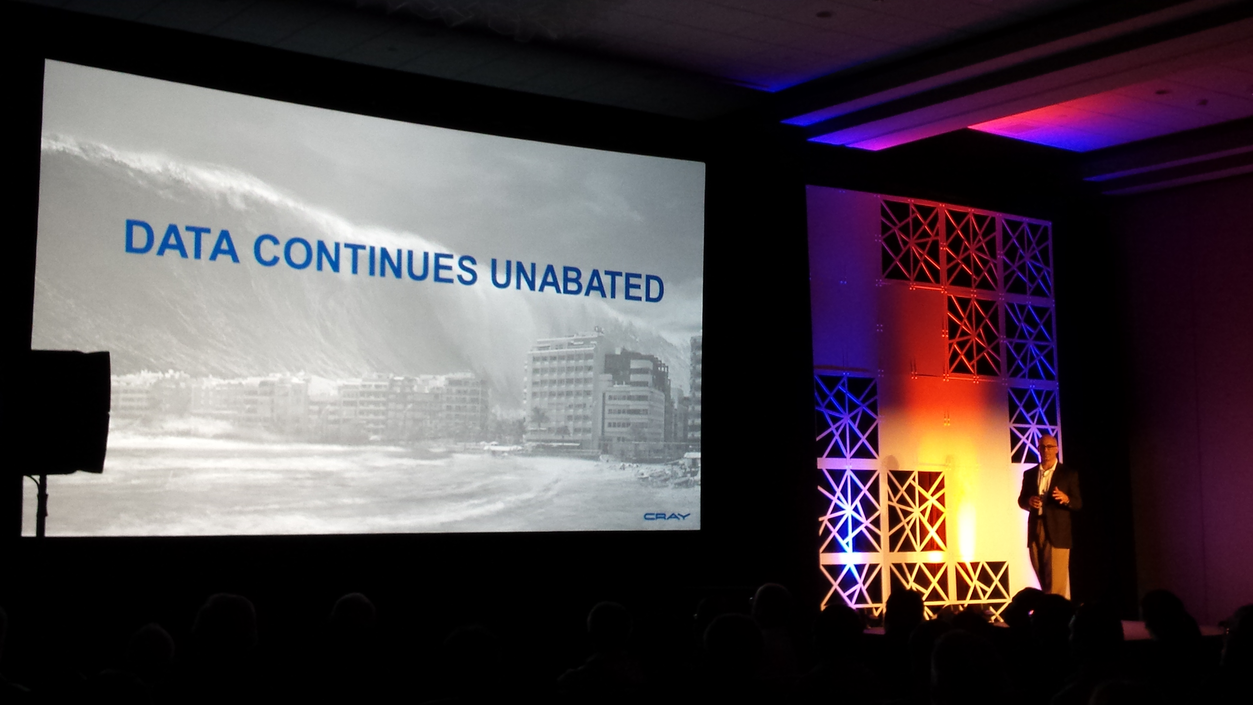 Peter Ungaro, CEO of Cray, speaking at the first IEEE Computer Society TechIgnite conference.